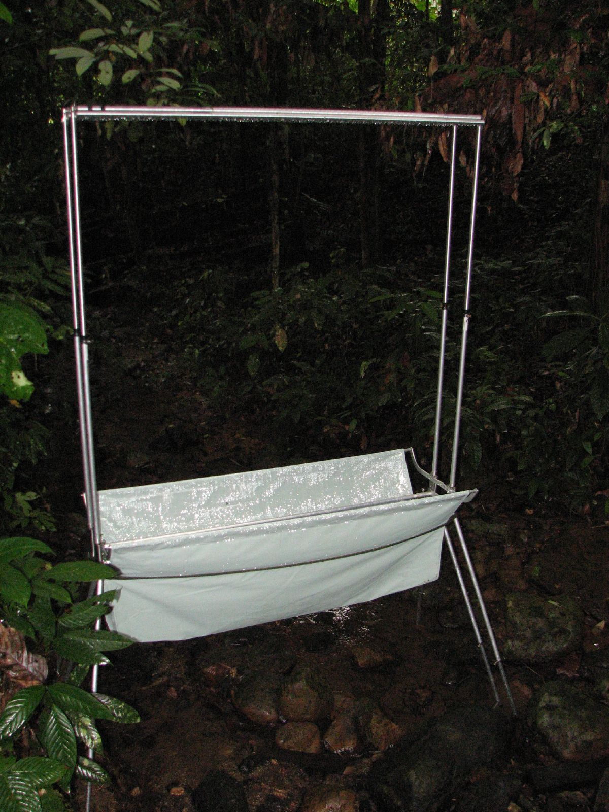 Harp-style Bat Trap, Danum Valley, Borneo